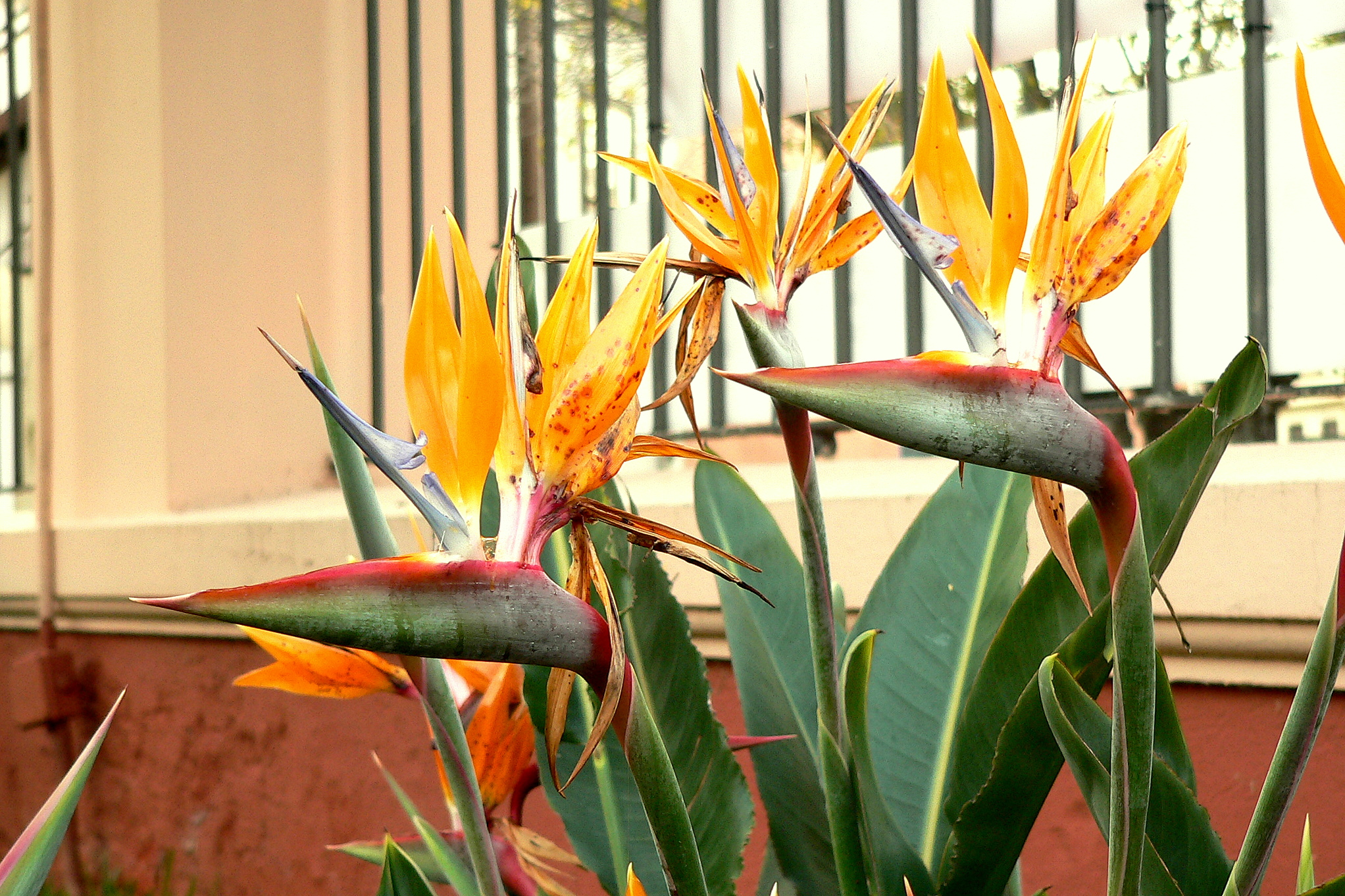 Tenerife is the largest and most populous island of the seven Canary Islands; it is also the most populated island of Spain. You can use this images for free. But a link to the - I would be happy :)